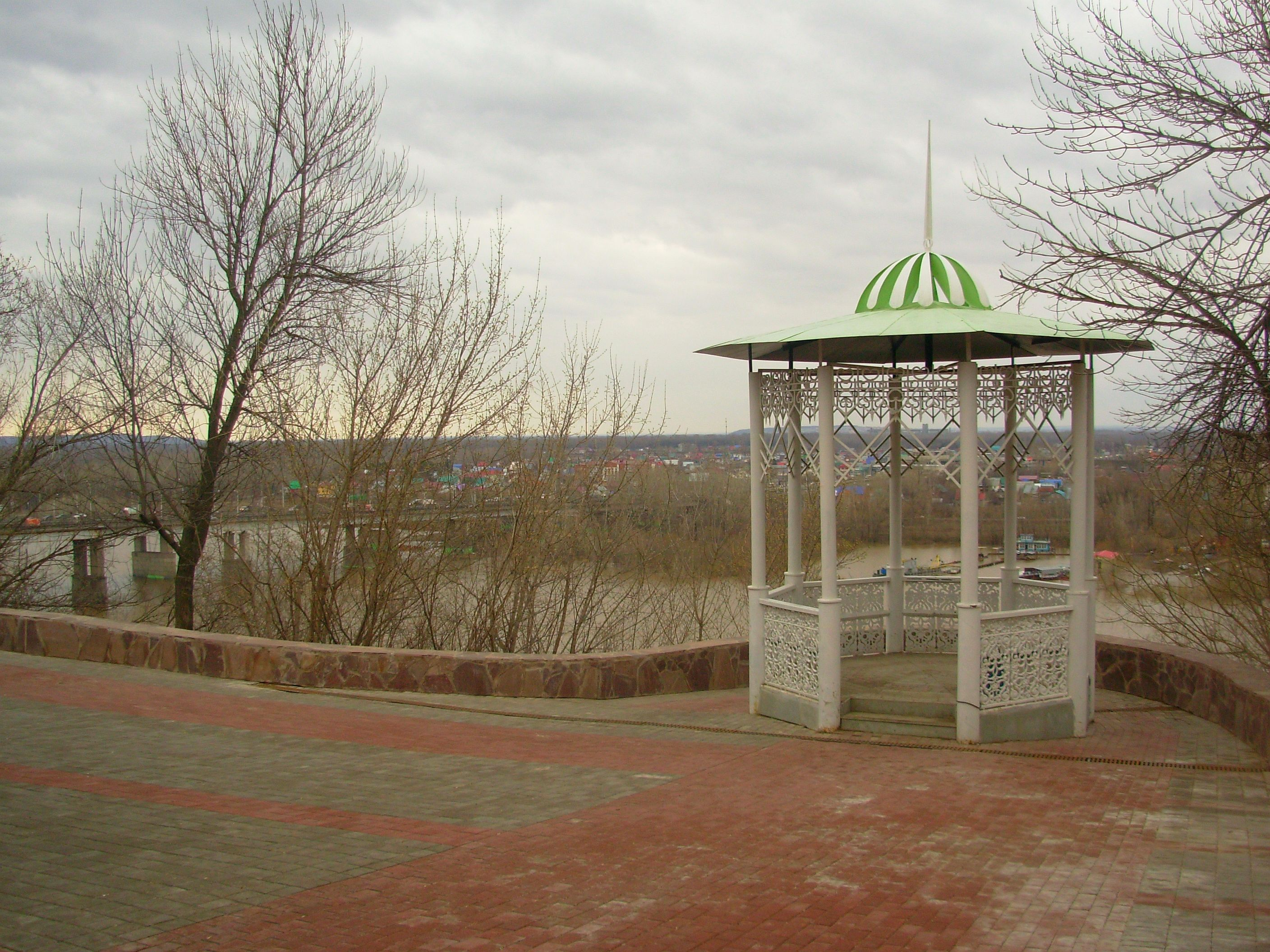 Беседка. Сад Салавата Юлаева. г. УфаTürkçe: Salavat Yulayev Bahçesi. Çardak.